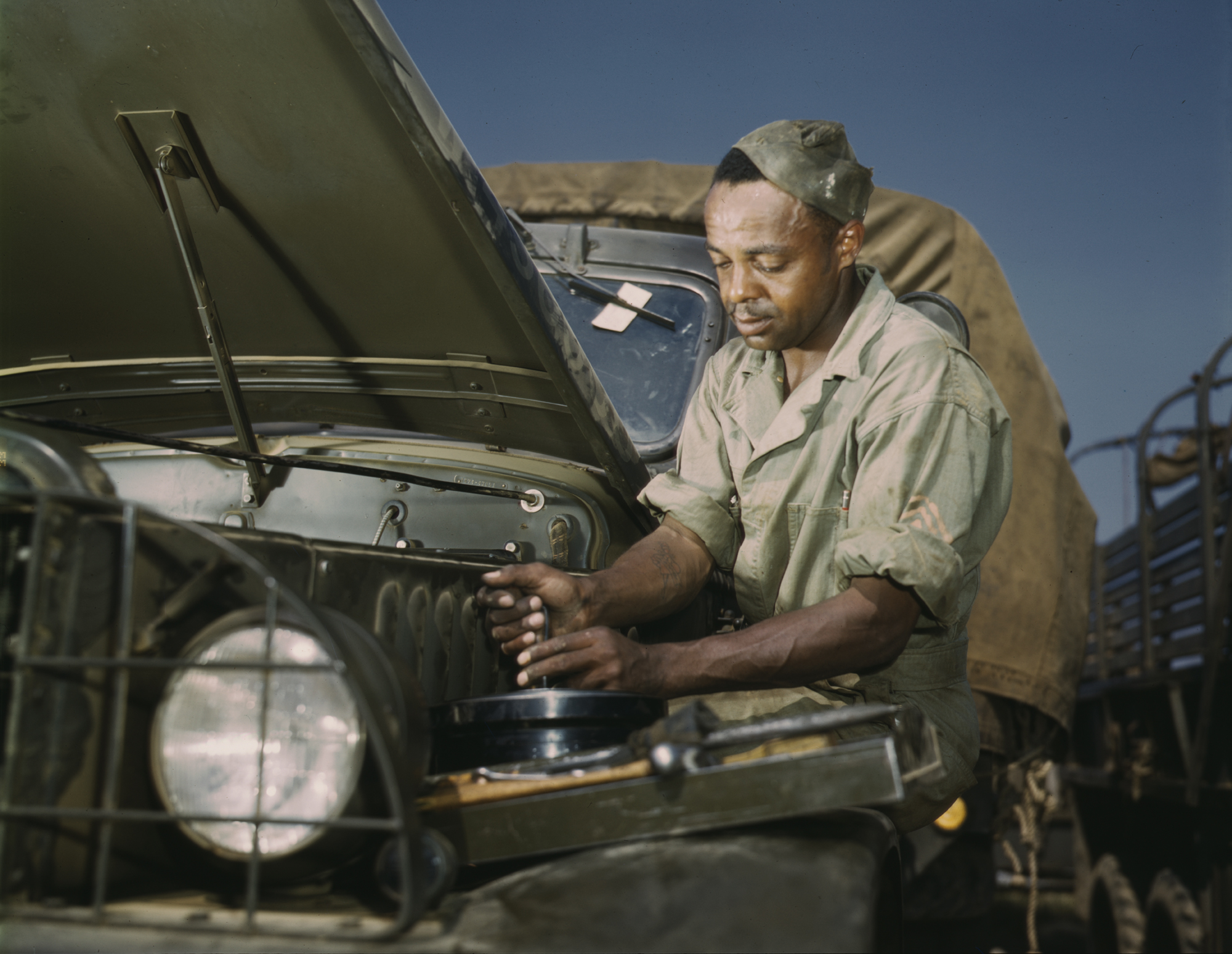 Original caption "Colored mechanic, motor maintenance section, Ft. Knox, Ky."